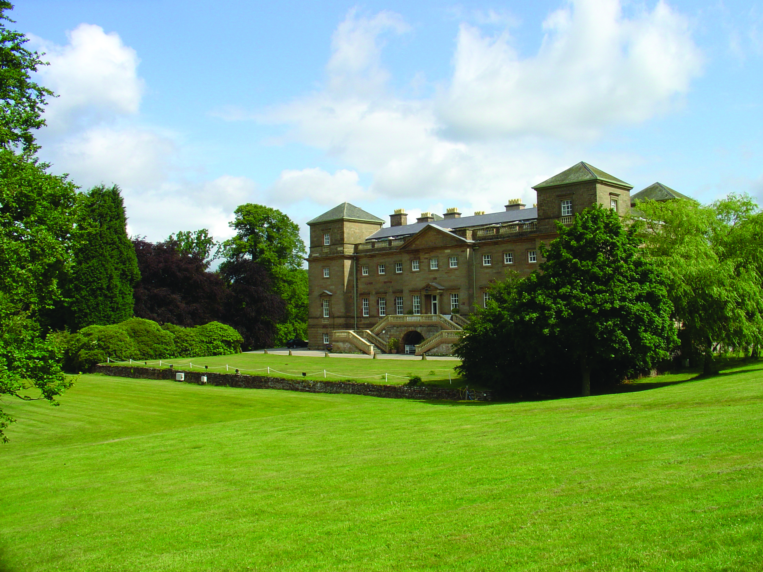 Update image of Hagley Hall, displaying the restored roof. Taken in 2011.